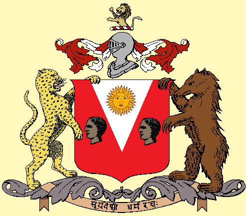 Dharampur State Coat of ArmsMaharana of ... Arms: Argent, on a pile Gules between two hands couped Sable a sun in splendour. Crest: On a helmet tot the dexter, lambrequined Argent and Purpure, a demi lion rampant Gules. Supporters: A panther on the dexter and a bear on the sinister. Motto: Suryavamso Dharmaraksah (The Race of the Sun is the Protector of Heavenly Law).